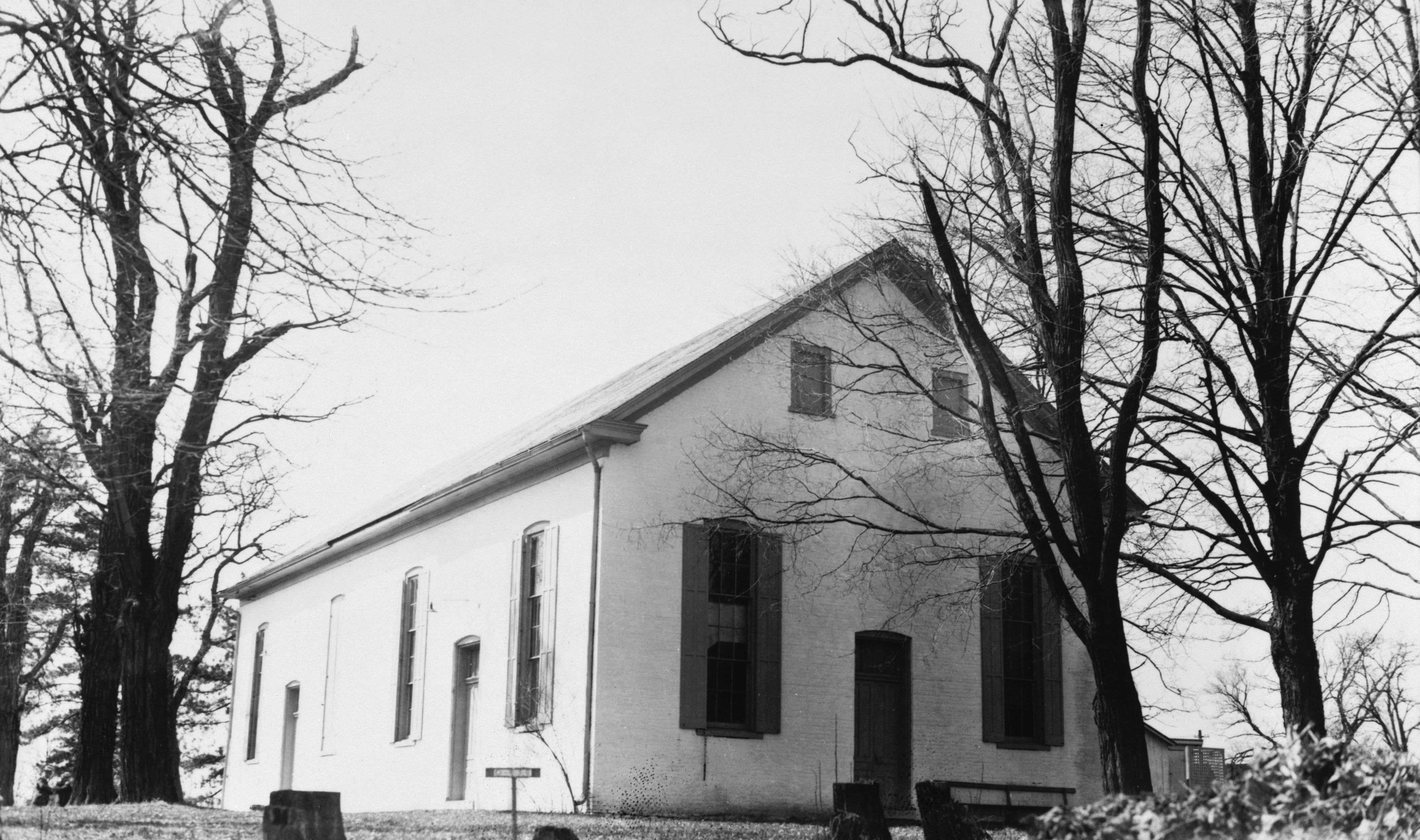 Front of the Religious Society of Friends meeting house in Waynesville, Ohio, United States. The church is part of the Miami Monthly Meeting Historic District, a historic district that is listed on the National Register of Historic Places.